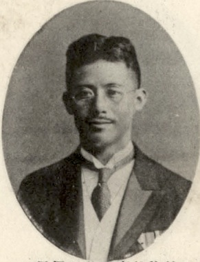 Tan Khe-hong 陳啟峰